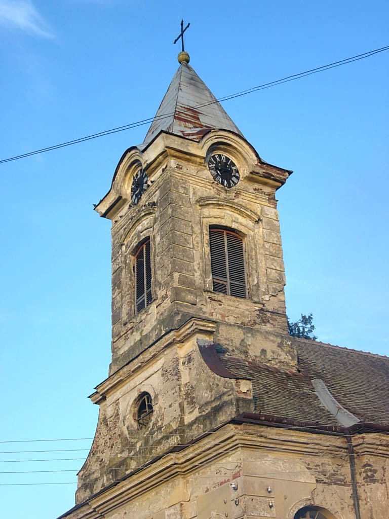 The Birth of Saint John the Baptist Catholic Church in Gudurica, Serbia.